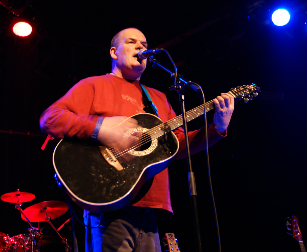 Kevin Hewick played as a support act for Section 25 in venue 'De Groene Engel' in Oss.